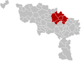 Map of Soignies District in province of Hainaut, Belgium.